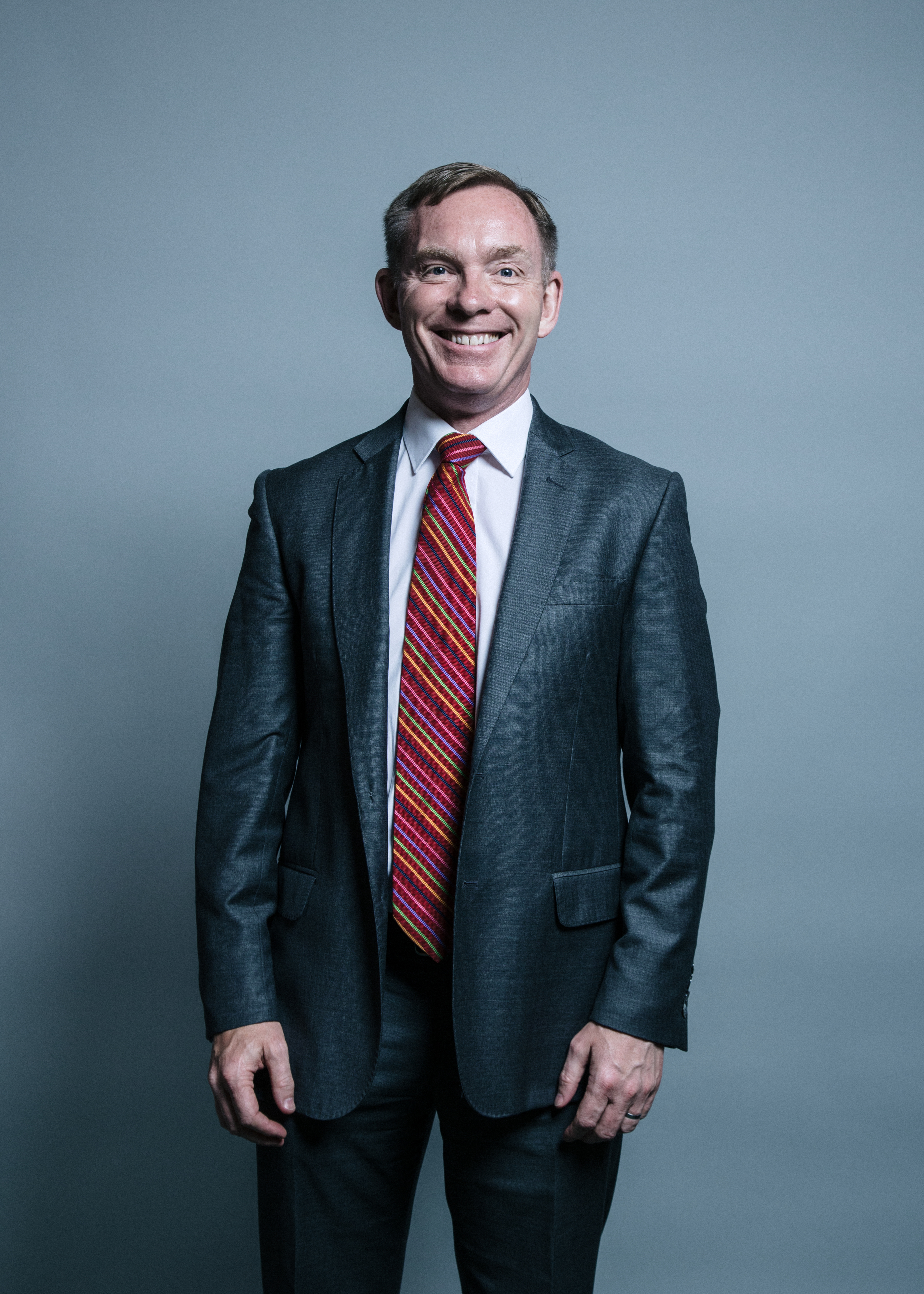 Official portrait of Chris Bryant